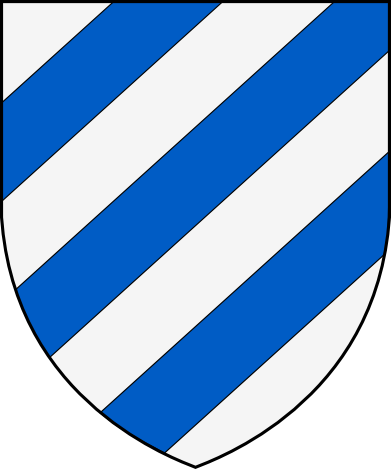 Coat of arms of Roger de Lauria - Barcelona, Spain